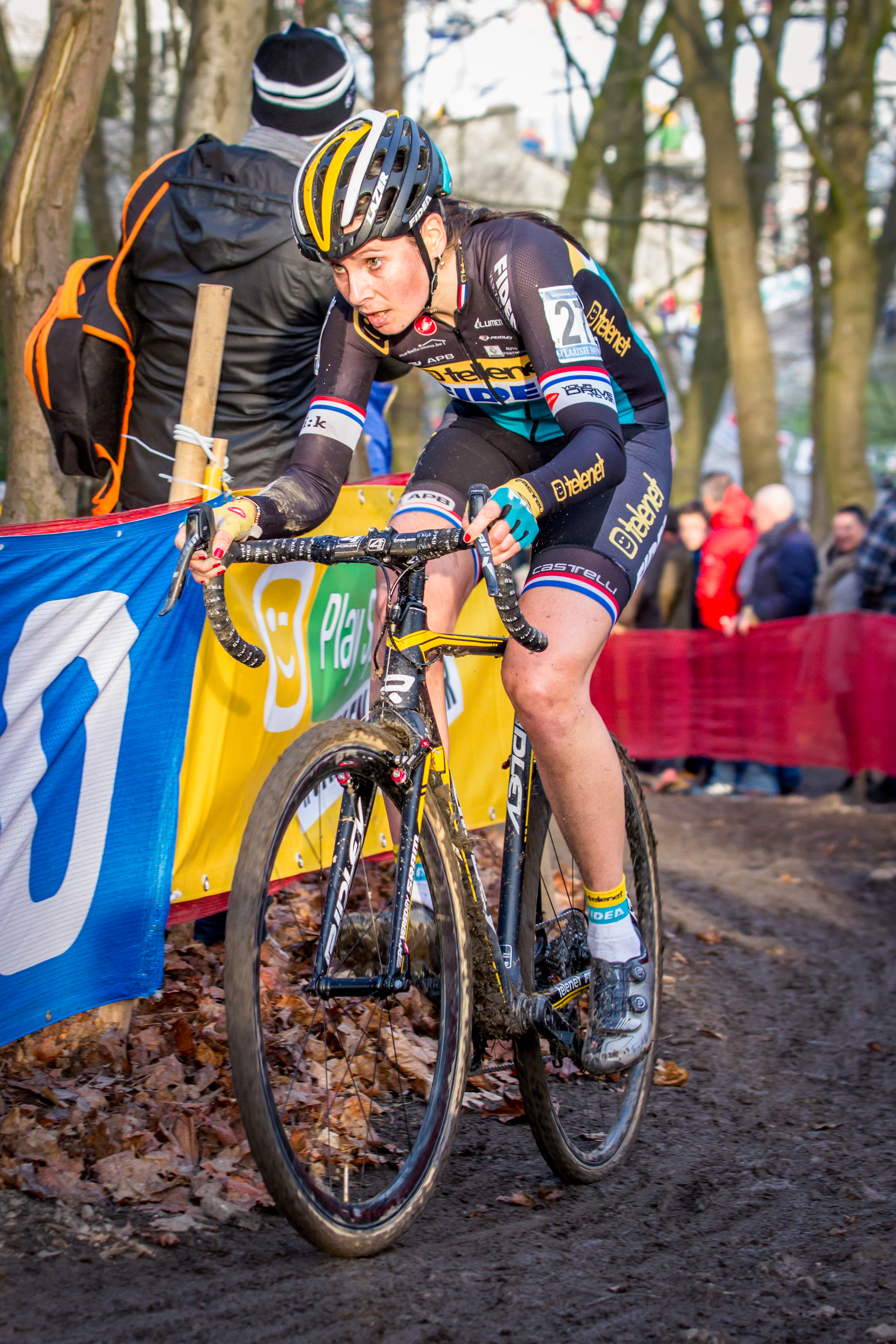 Nikki Harris (GBR) of Telenet/Fidea. UCI Cyclocross World Cup, Namur, 2015.